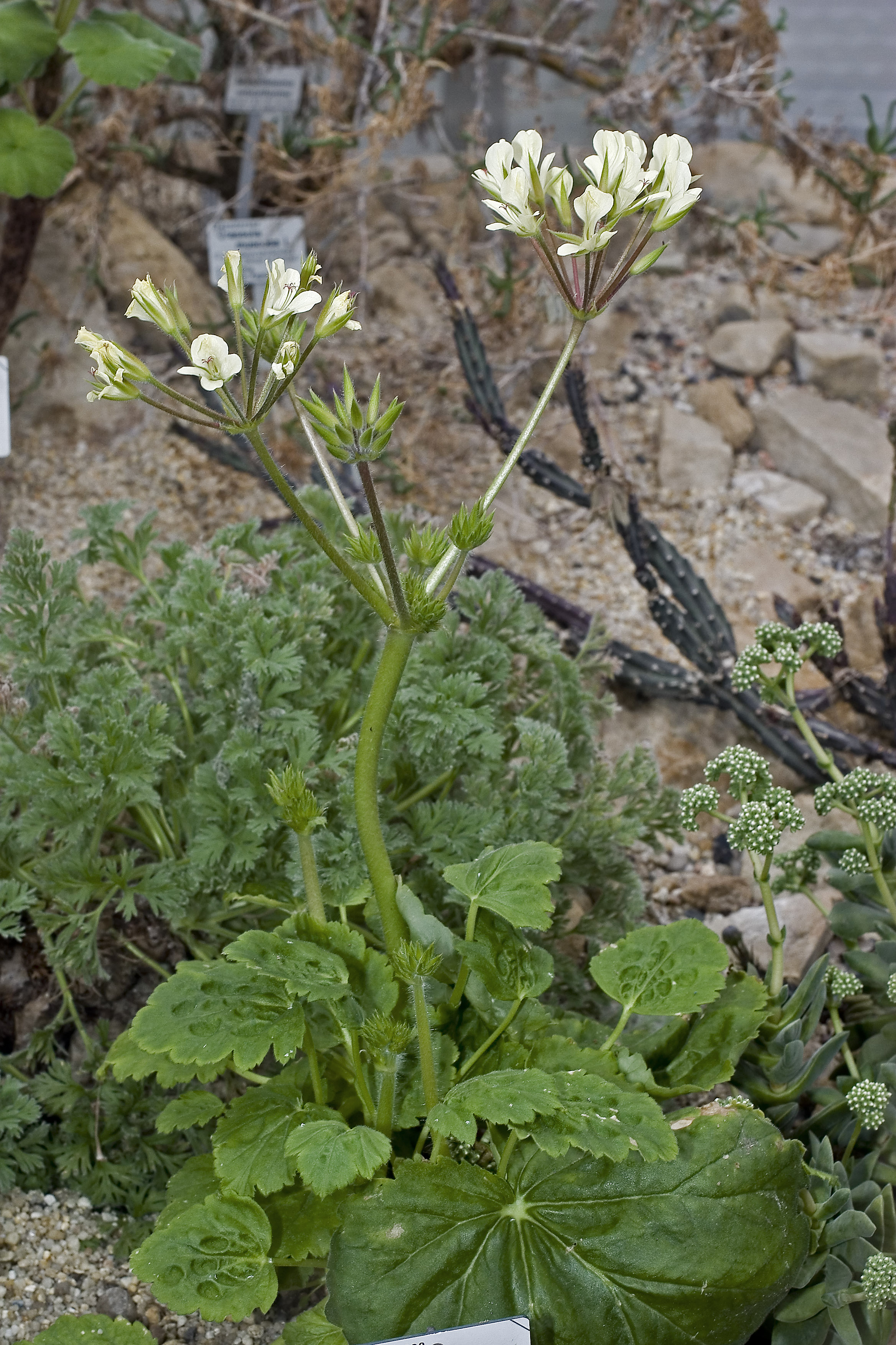 Pelargonium oblongatum